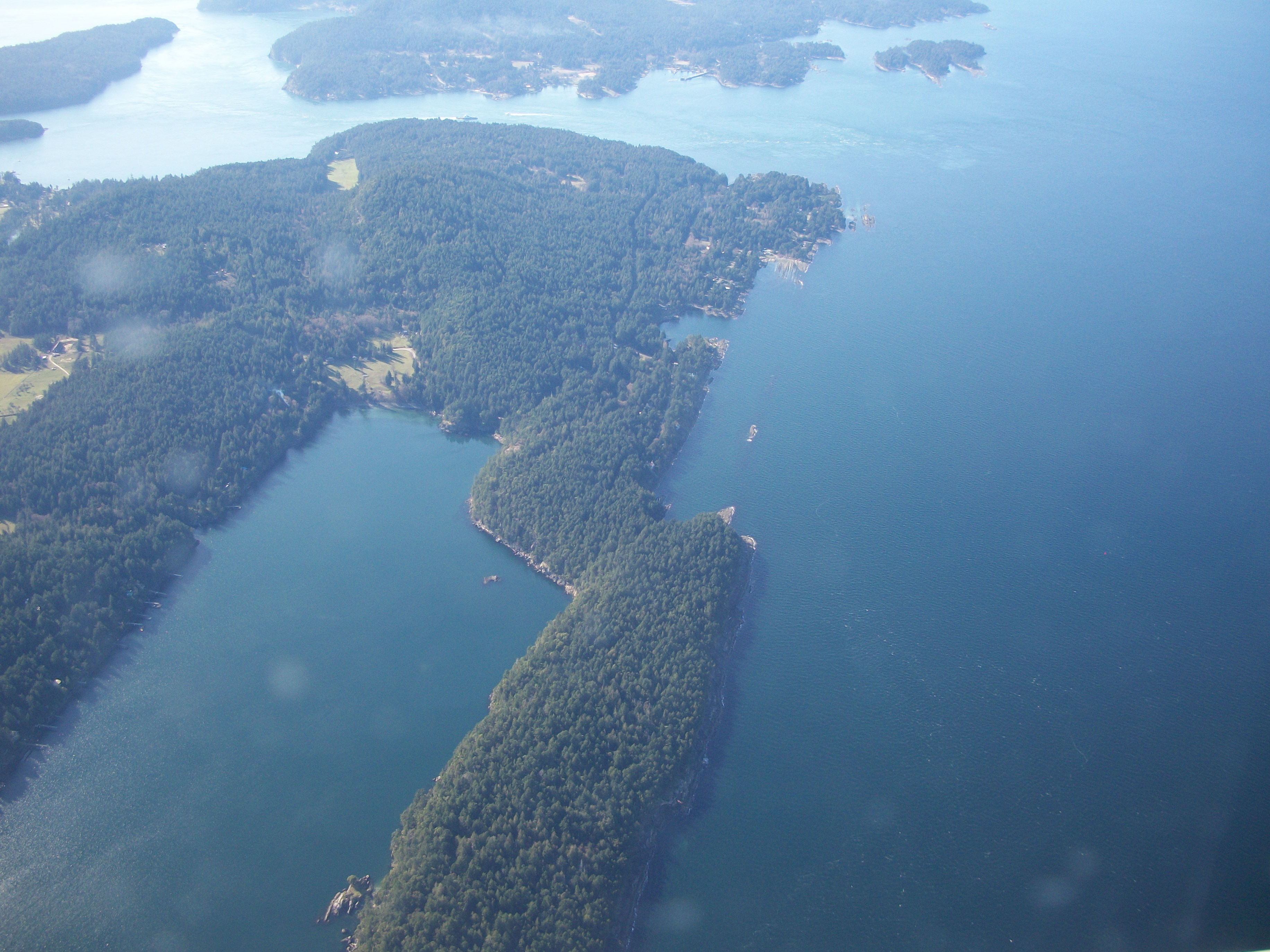 Southern Gulf Islands, BC, Canada